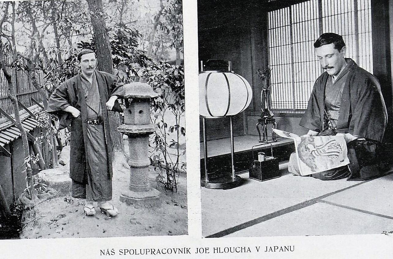 Joe Hloucha, Czech writer, Japan 1906